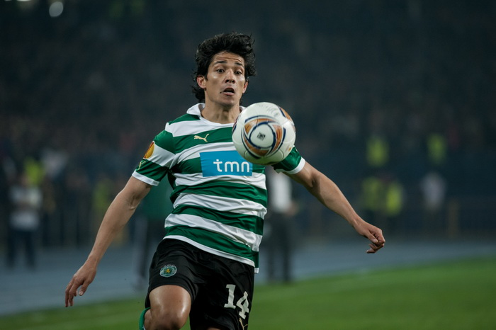 Chilean football player Matías Fernández as playing for Sporting Lisbon against Metalist Kharkiv